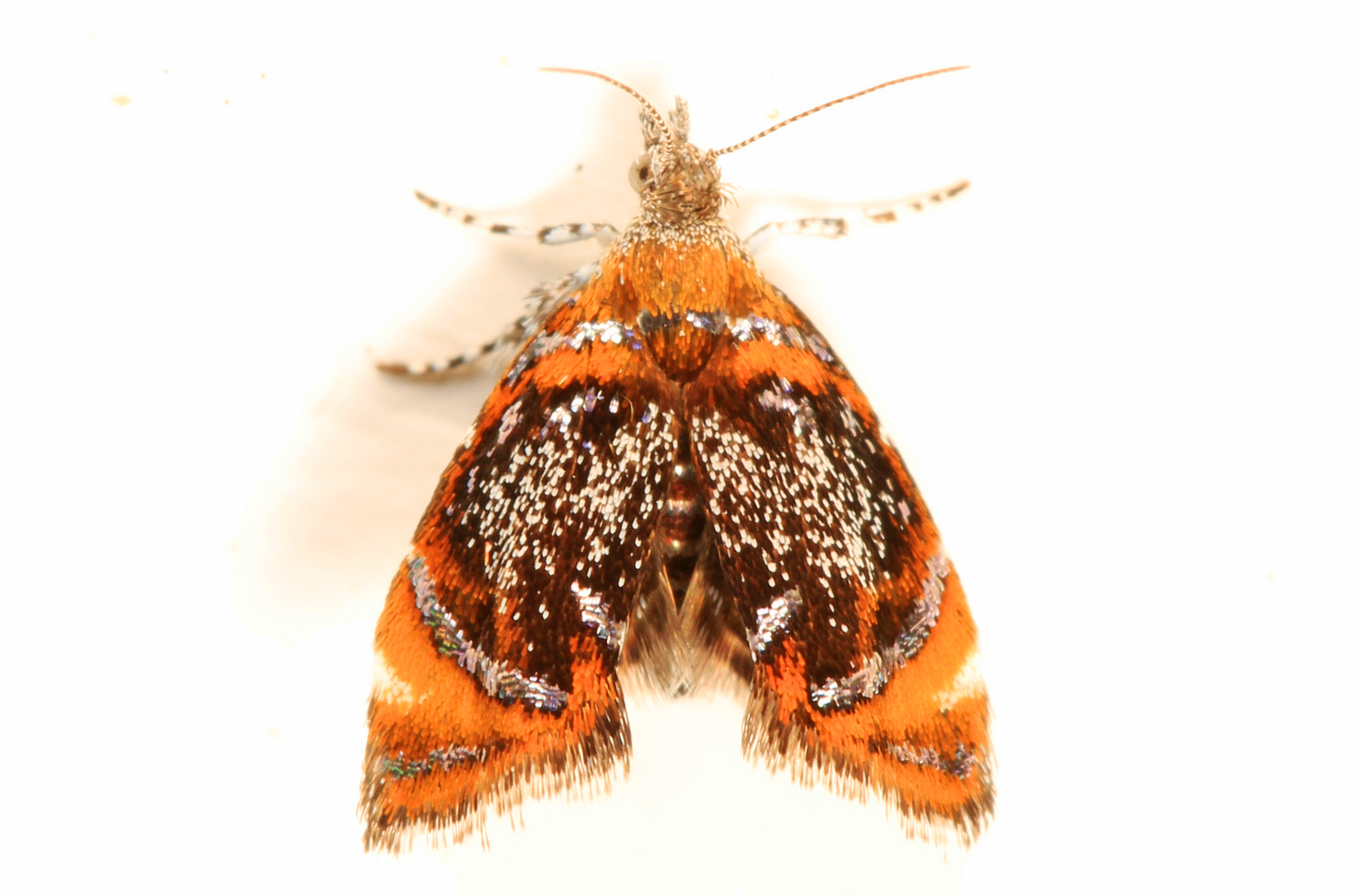 Day 146 - Skullcap Skeletonizer Moth - Prochoreutis inflatella, Woodbridge, Virginia